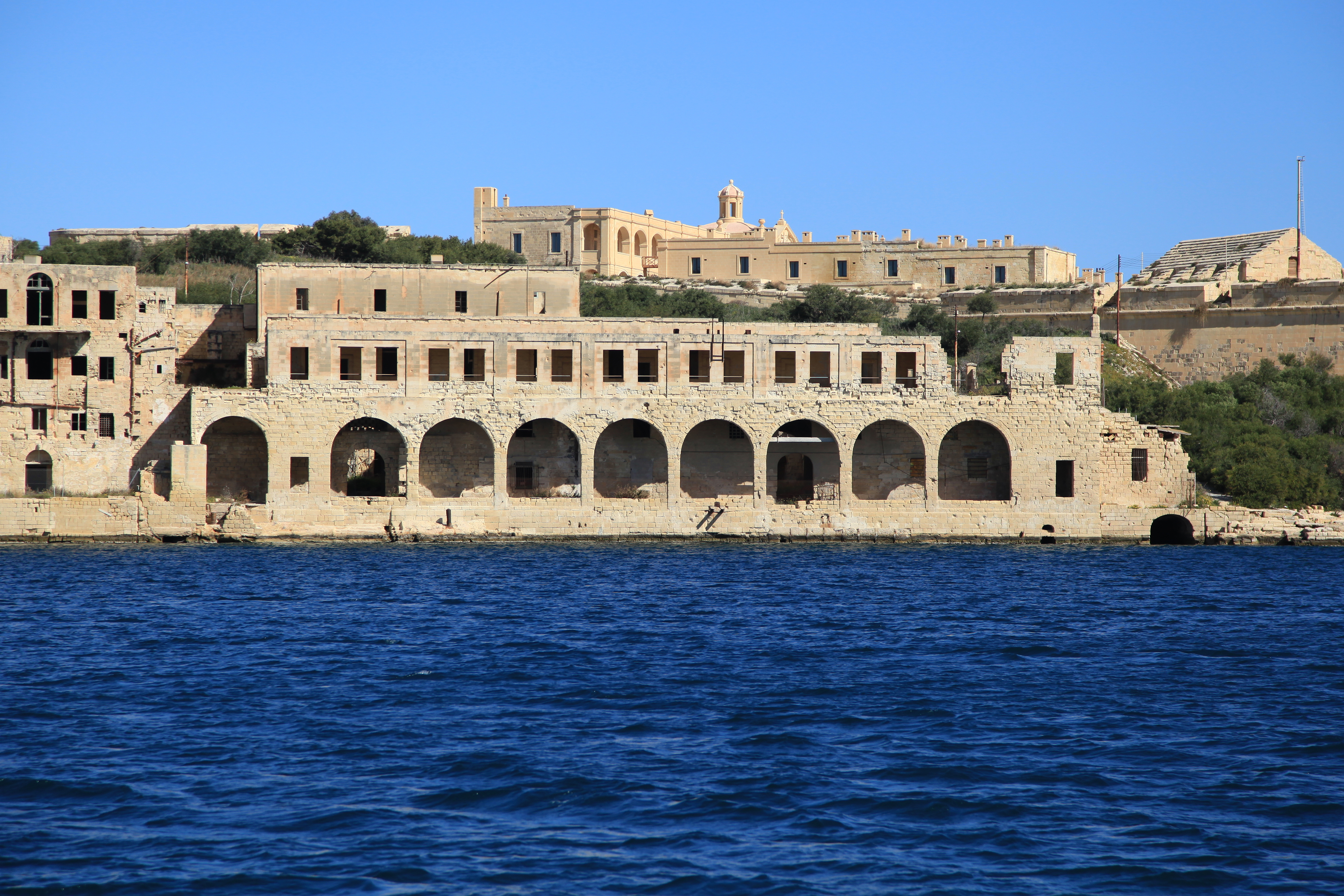 View from a Malta sightseeing two harbours cruise boat to the Lazzaretto and Fort on Manoel Island in Gżira, Malta